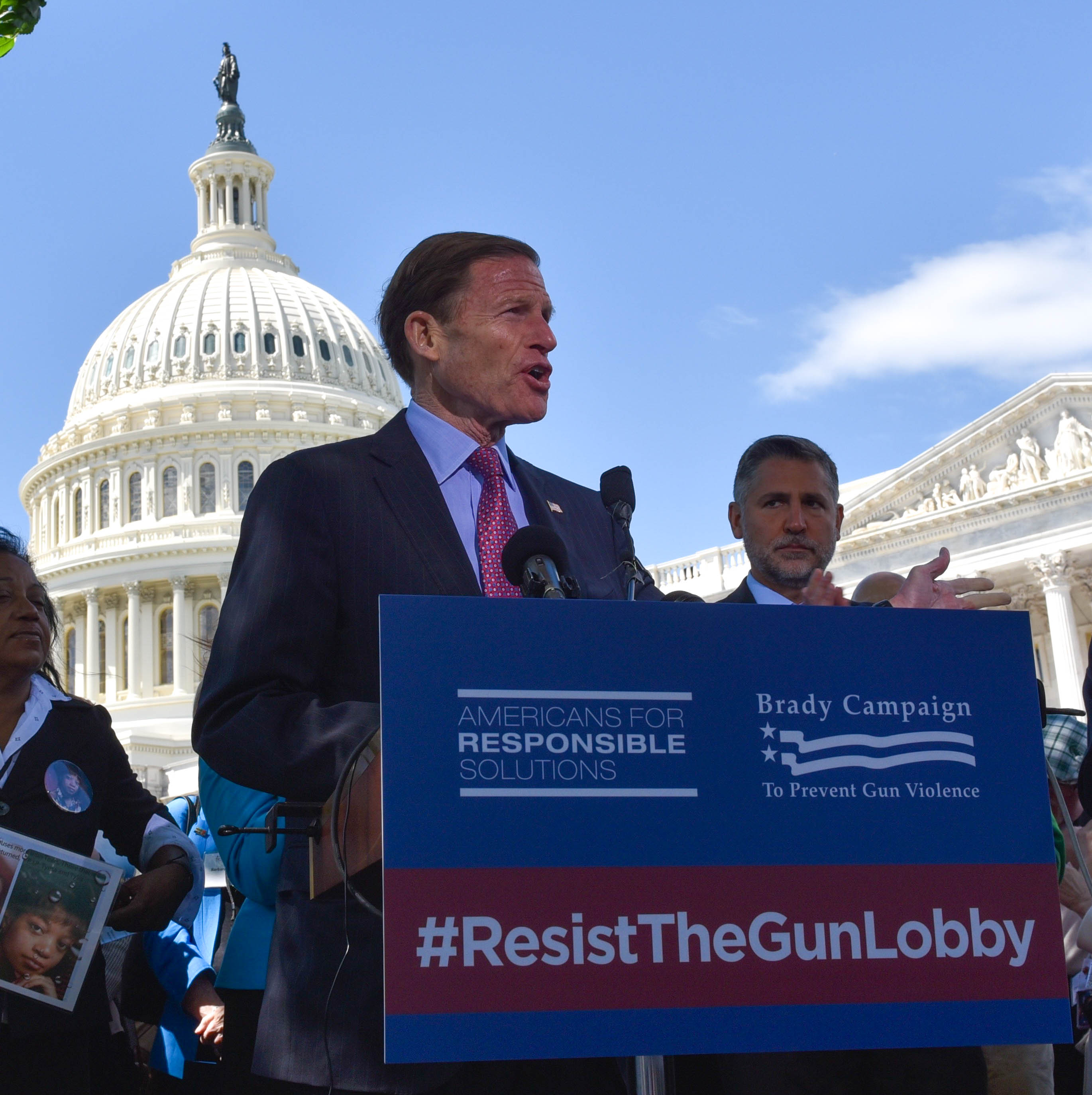 MC0_2296